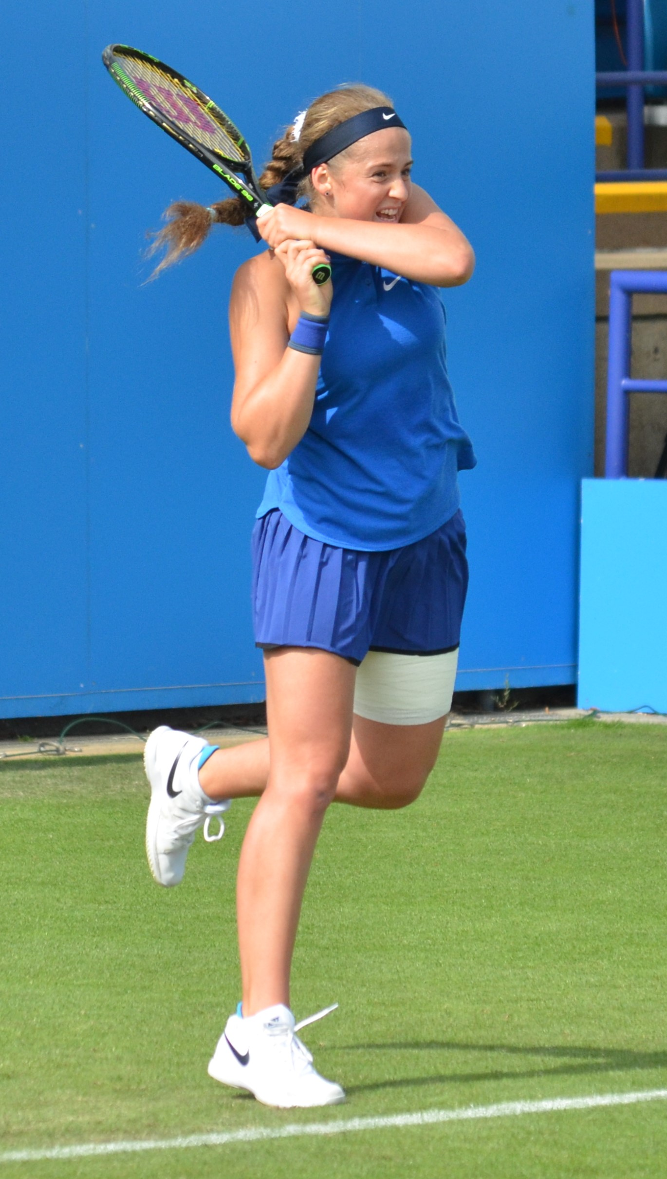 Jelena Ostapenko at the 2016 Aegon International